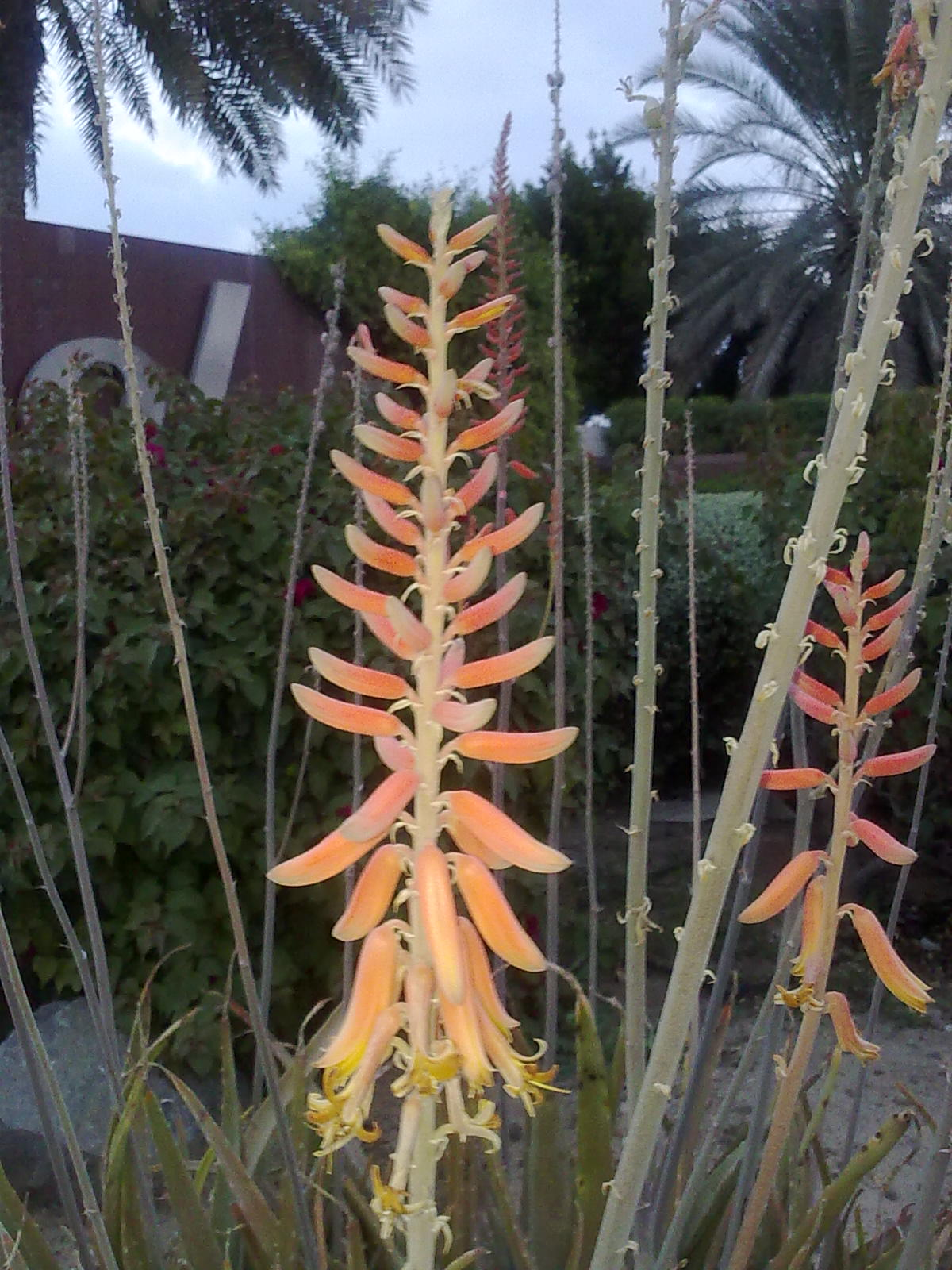 Aloe vera is a species of succulent plant that probably originated in northern Africa. The species does not have any naturally occurring populations, although closely related aloes do occur in northern Africa. Photo from dubai, UAE